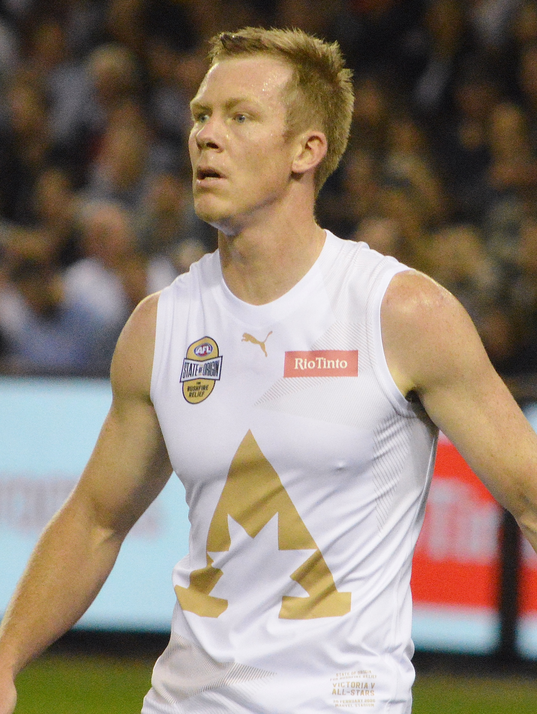 Jack Riewoldt at the AFL State of Origin for Bushfire Relief Match at Marvel Stadium in February 2020.